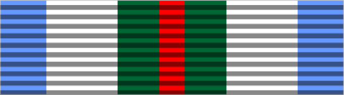 INTERFET (International Force East Timor) commemorative Medal